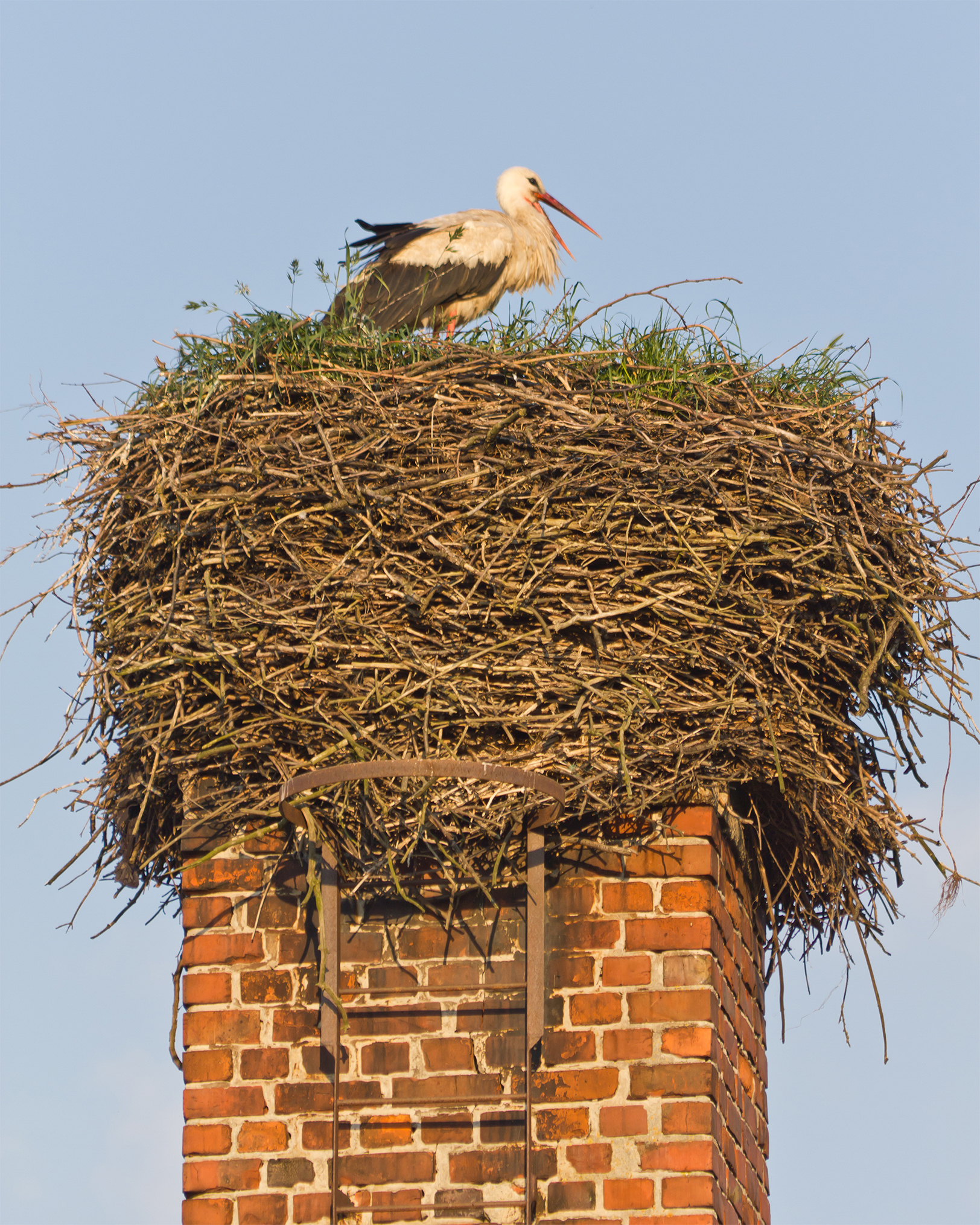 Ribbeck (Nauen), Brandenburg, Germany: a stork's nest